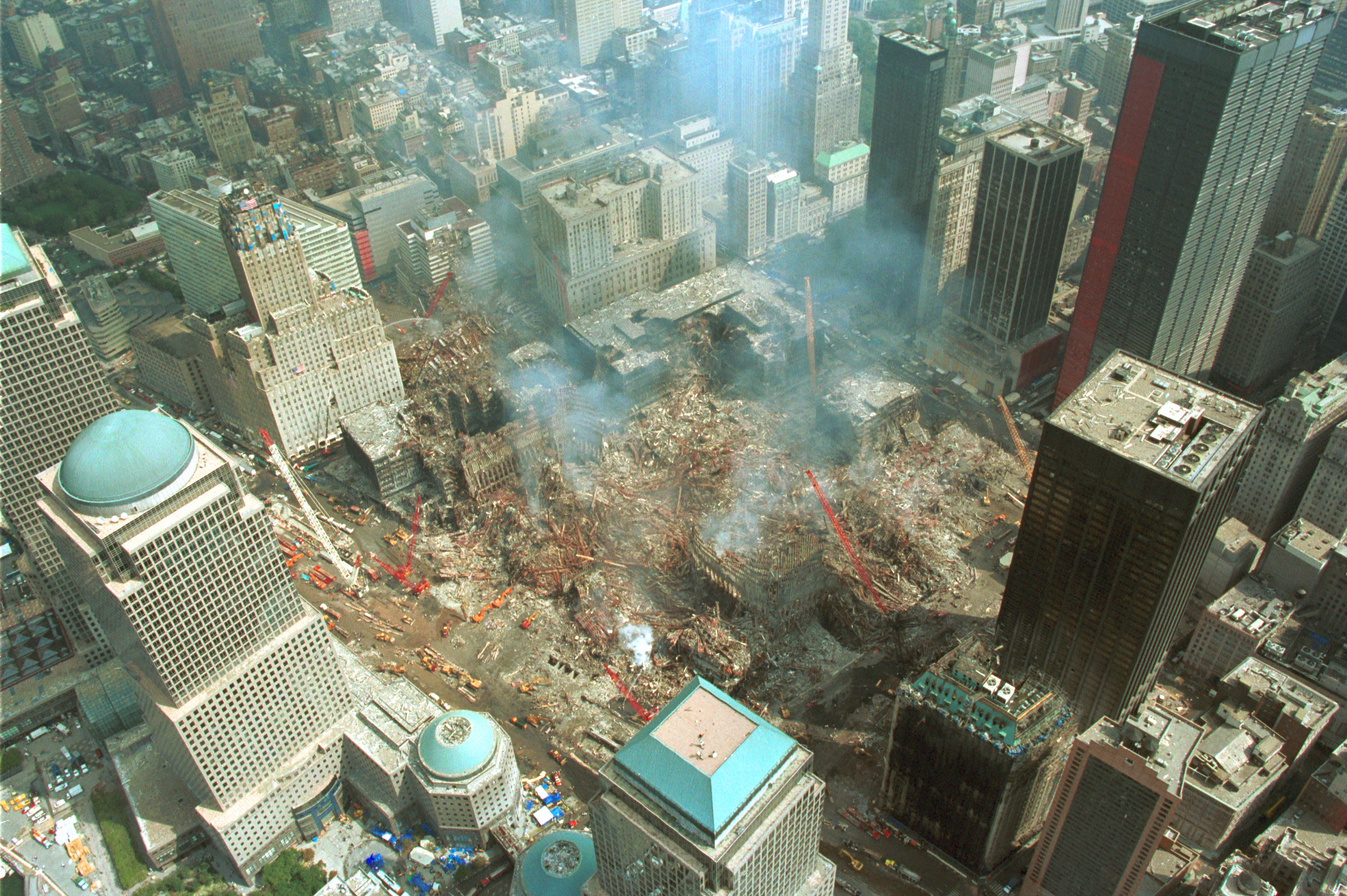 Original description by CBP: "An aerial view of the NYC Customhouse and surrounding area."